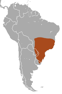 Greater Naked-tailed Armadillo (Cabassous tatouay) range